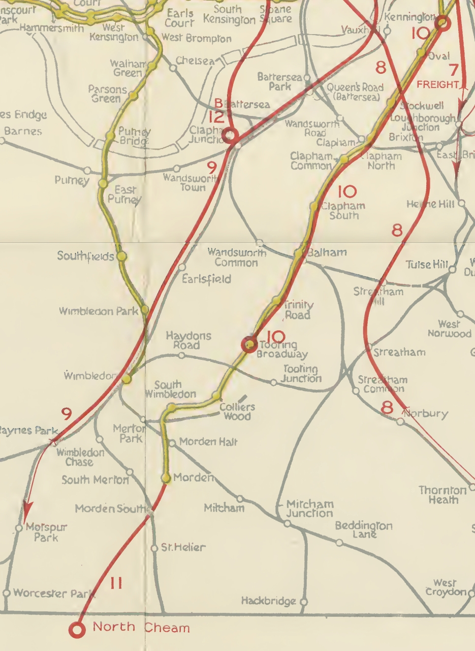 Extract from Map 2 from report, showing proposed new rail Route 10 (duplicate tube line from Tooting Broadway to Kennington and Route 11 (new tunnel from Morden to North Cheam)